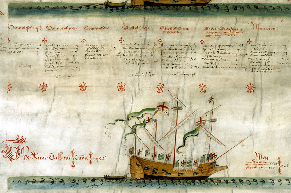 Display of second ship of the second roll of the Anthony Roll. The illustration is of the galleass Anne Gallant and the text above it is the inventory for the Grand Mistress (partially hidden).